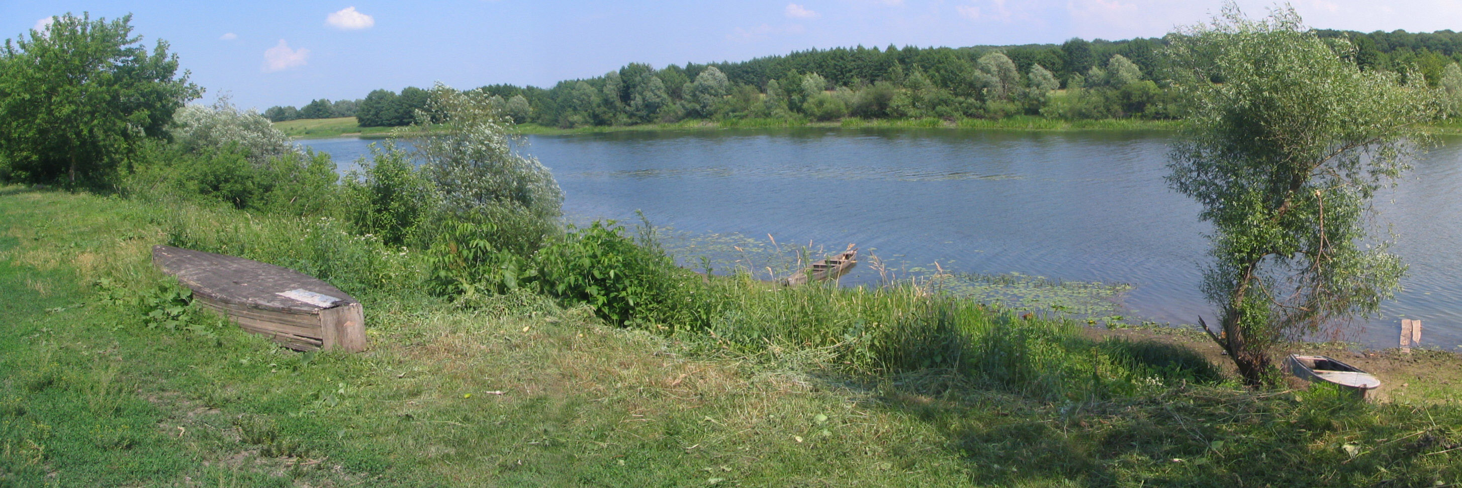 The view on Sejm River in Bupel, Khomutovsky rayon, Kurskaya oblast